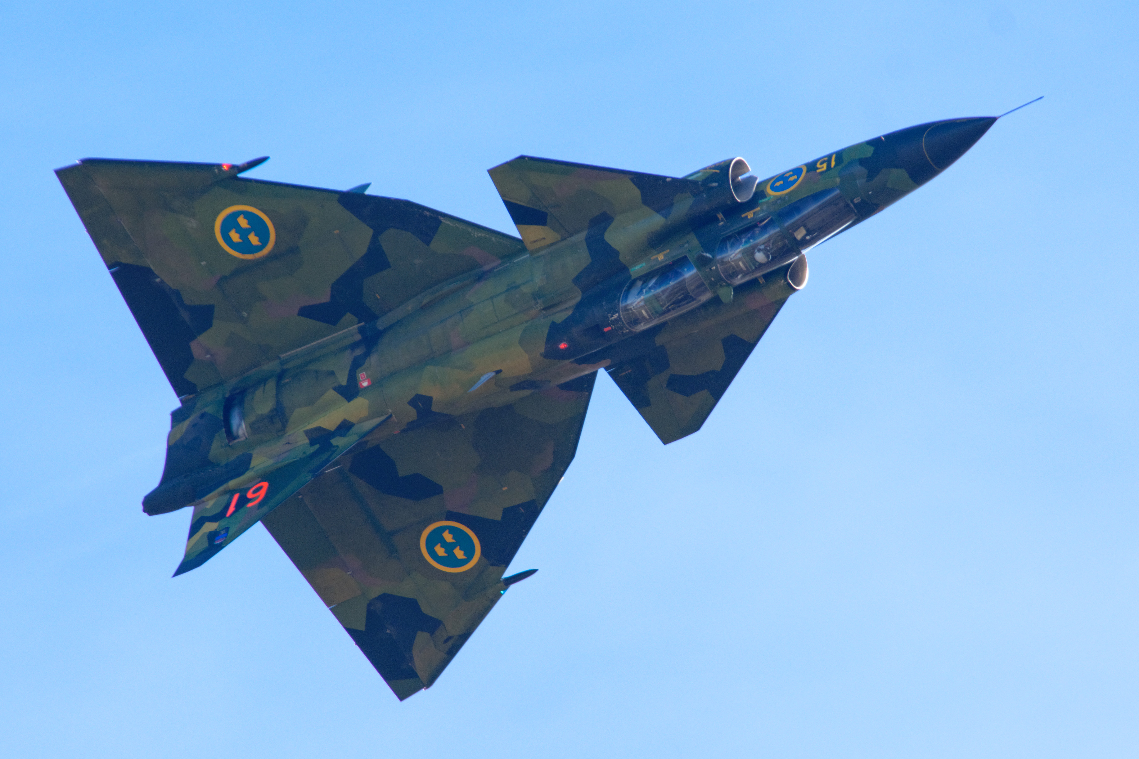 Saab 37 Viggen, at Sanicole airshow 2019